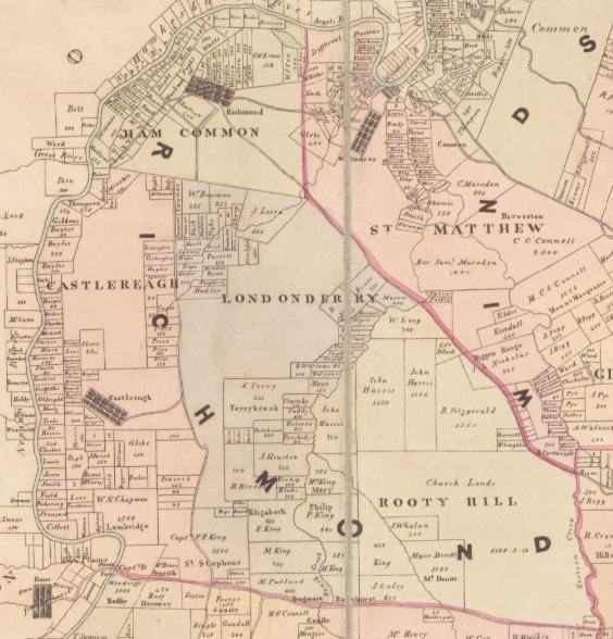 Map of the Hundred of Richmond, Cumberland County, New South Wales.[1]